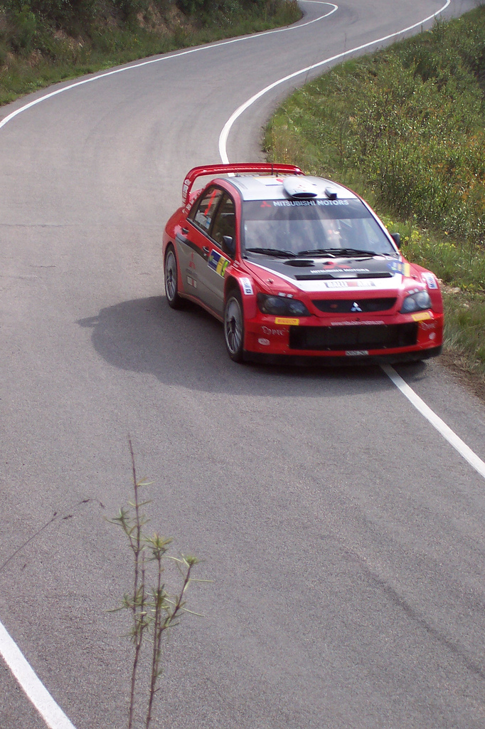 Harri Rovanperä driving a Mitsubishi Lancer WRC on SS9 of the 2005 Rally Catalunya.